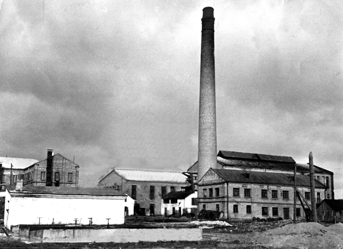 Frenkelis tannery (Elnias) in Šiauliai, 1952.